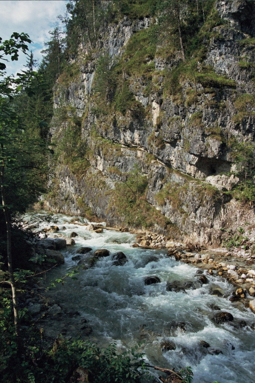 stream "Haselbach" in the ravine "Öfenschlucht"